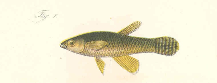 Subject: Aplocheilichthys Tag: Fish